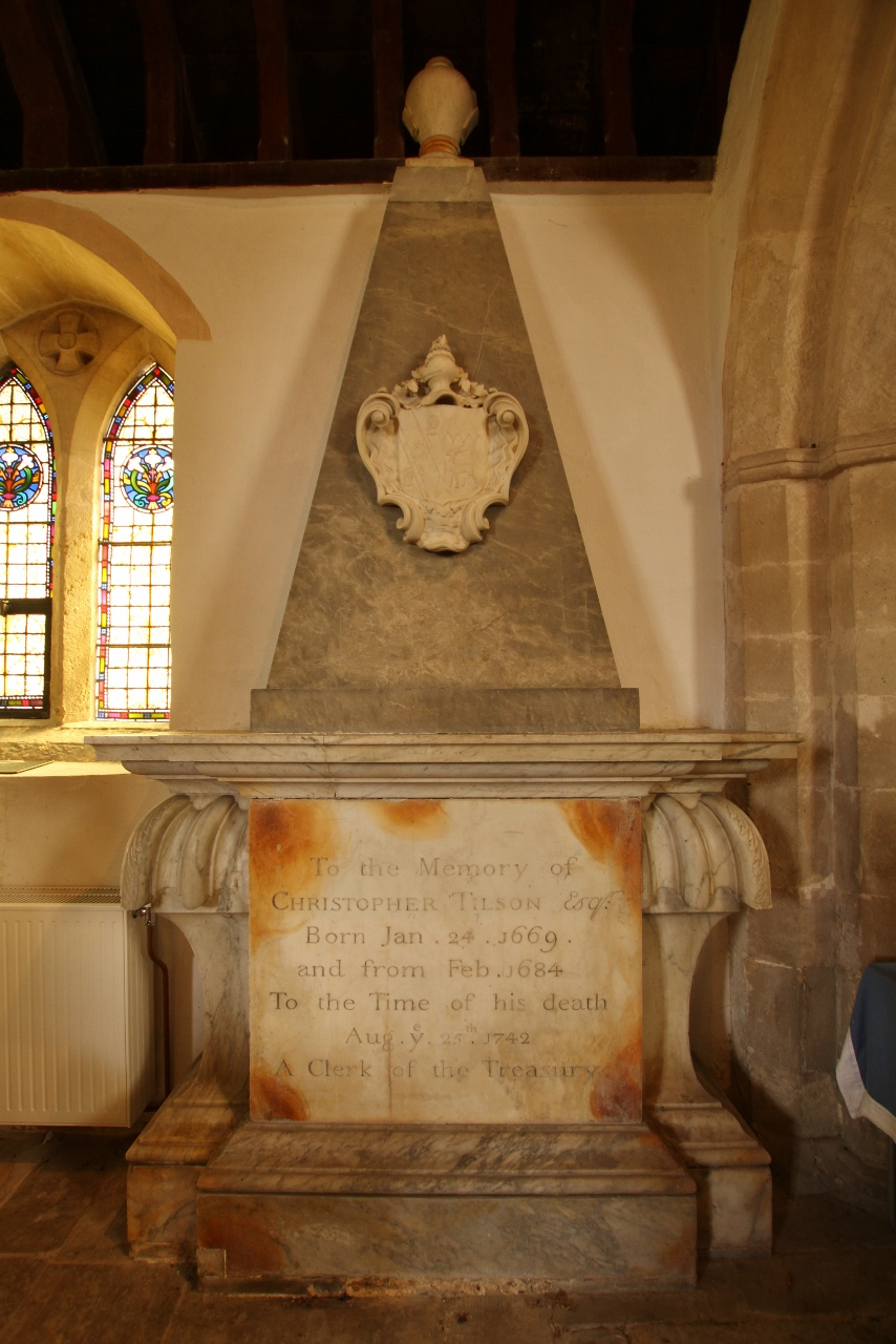 Monument in the south aisle of St Mary's parish church, Hampton Poyle, Oxfordshire, to Christopher Tilson (1669–1742)